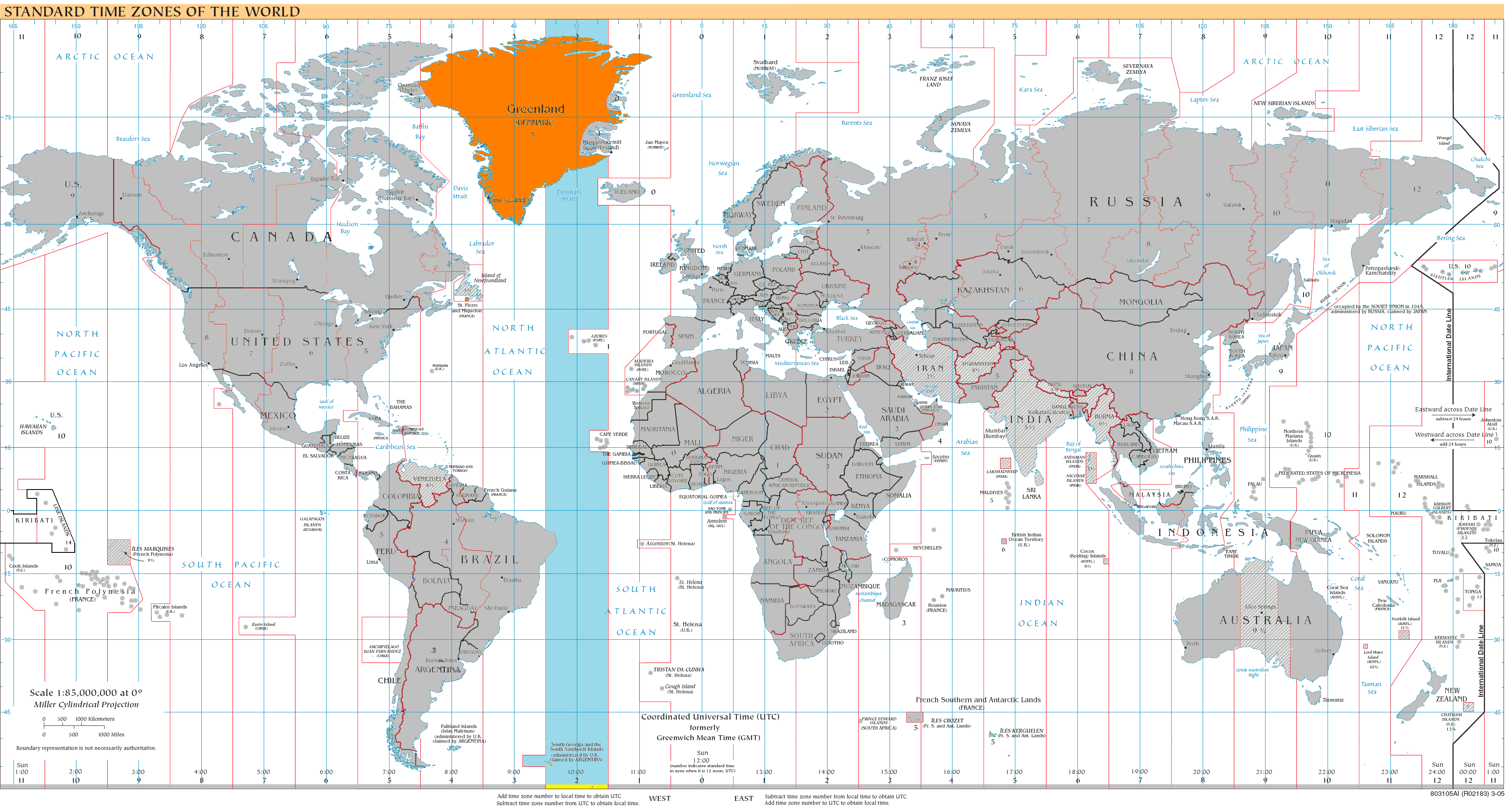 World map of time zones as of 2008, on the Miller Cylindrical Projection and with highlighted UTC-2 zone. Dark Blue - UTC-2 during Northern Winter / Southern Summer Orange - UTC-2 during Northern Summer / Southern Winter Yellow - UTC-2 all year round Light Blue - UTC-2 sea areas